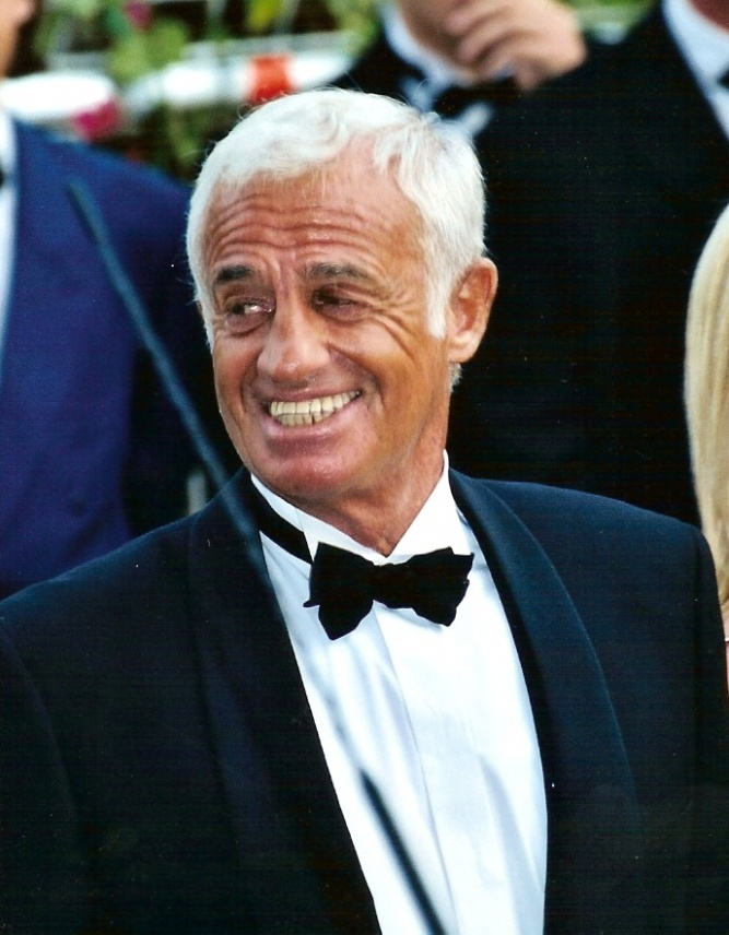 Jean-Paul Belmondo, French actor.